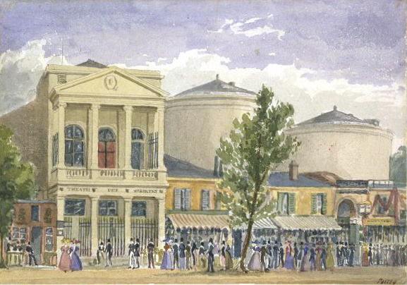 Théâtre des Variétés and the Panorama buildings in Paris. Watercolour on paper, 1829 Victoria and Albert Museum, London, Museum number: E.527-1993